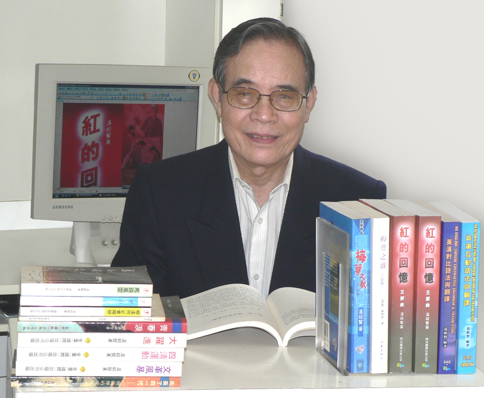 Wan Siu Yin's photo